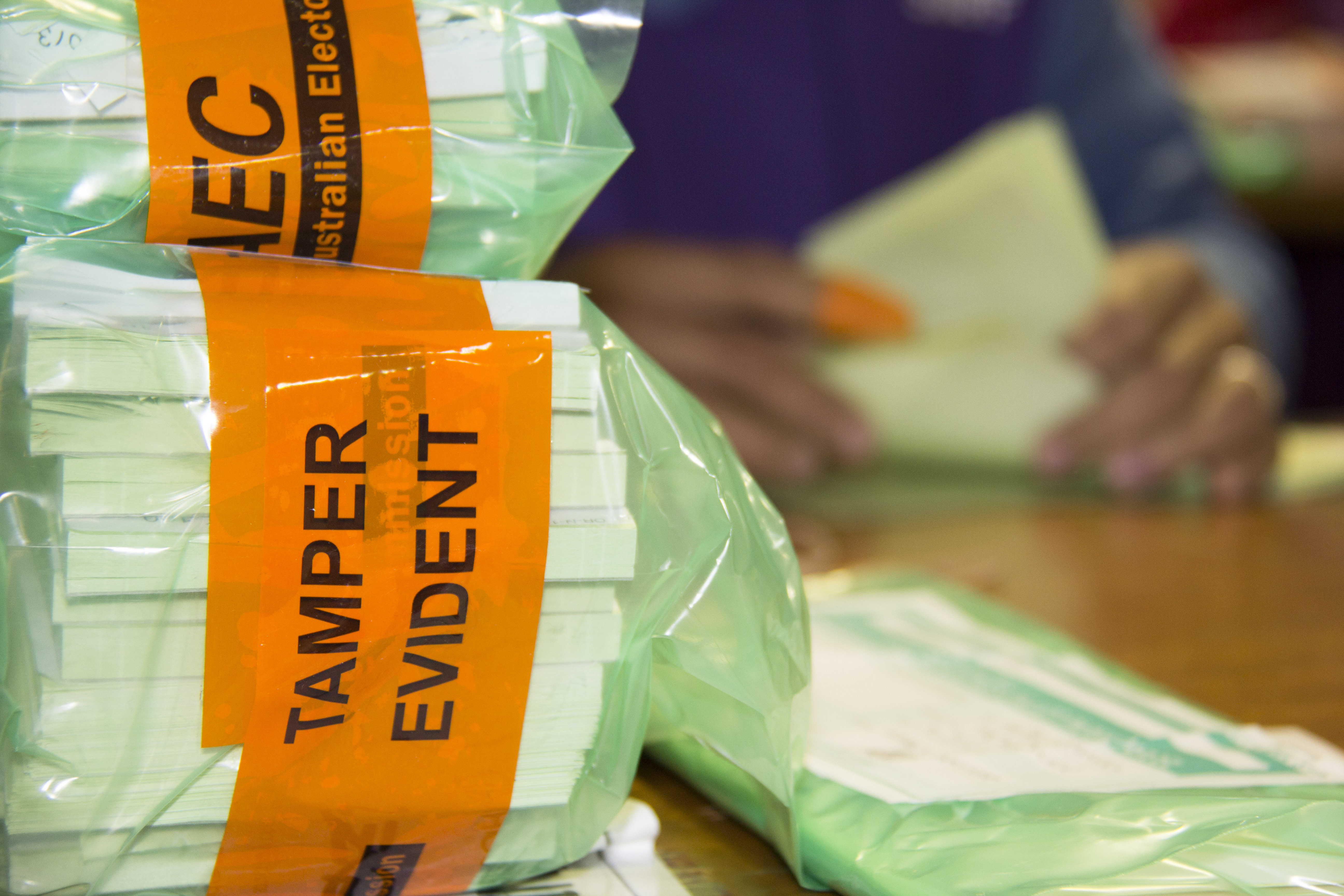 Australian Electoral Commission image library, 2016 federal election. Sealed ballot papers.